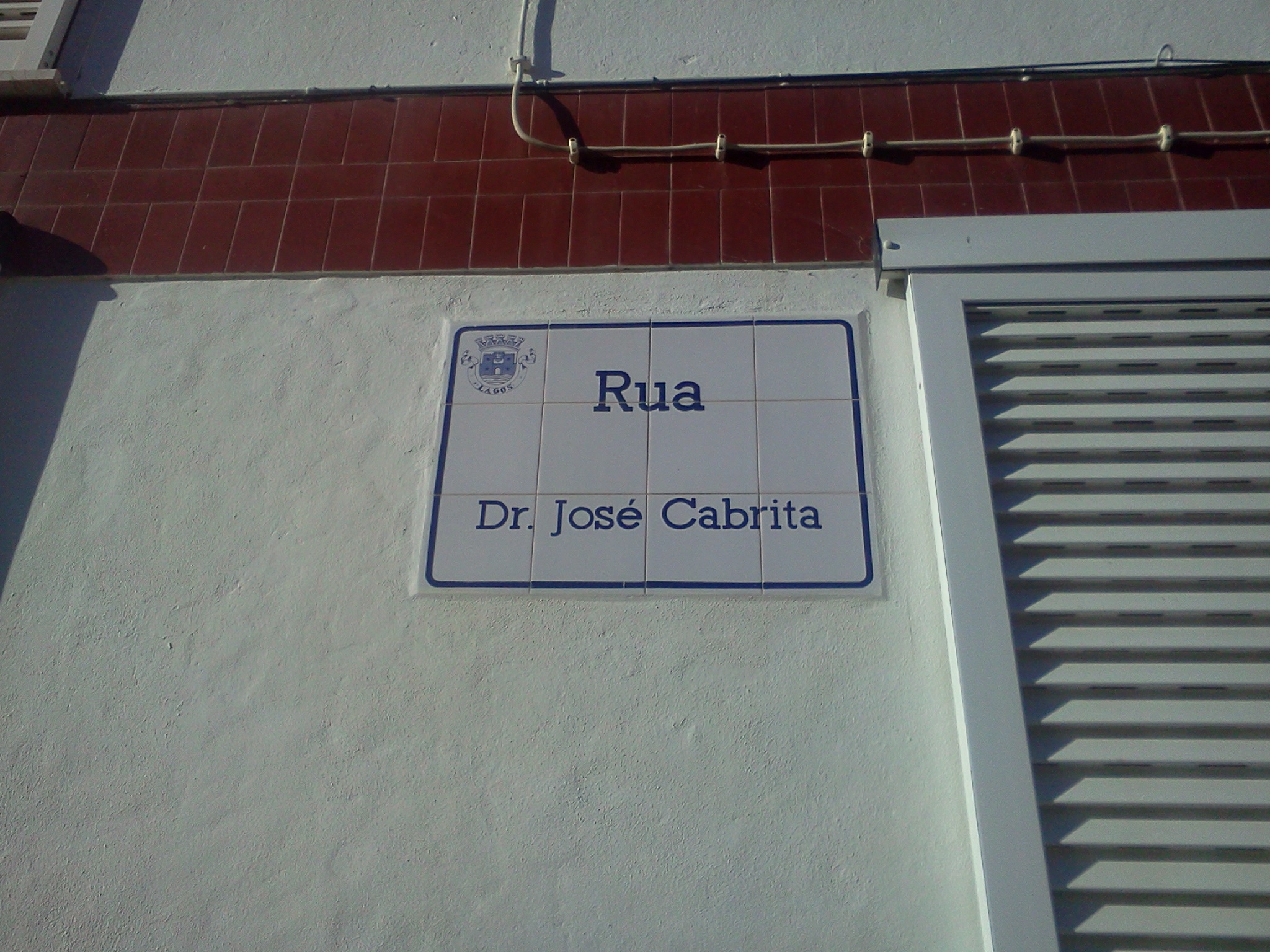 Street sign of Rua José Cabrita, in the city of Lagos, in southern Portugal.